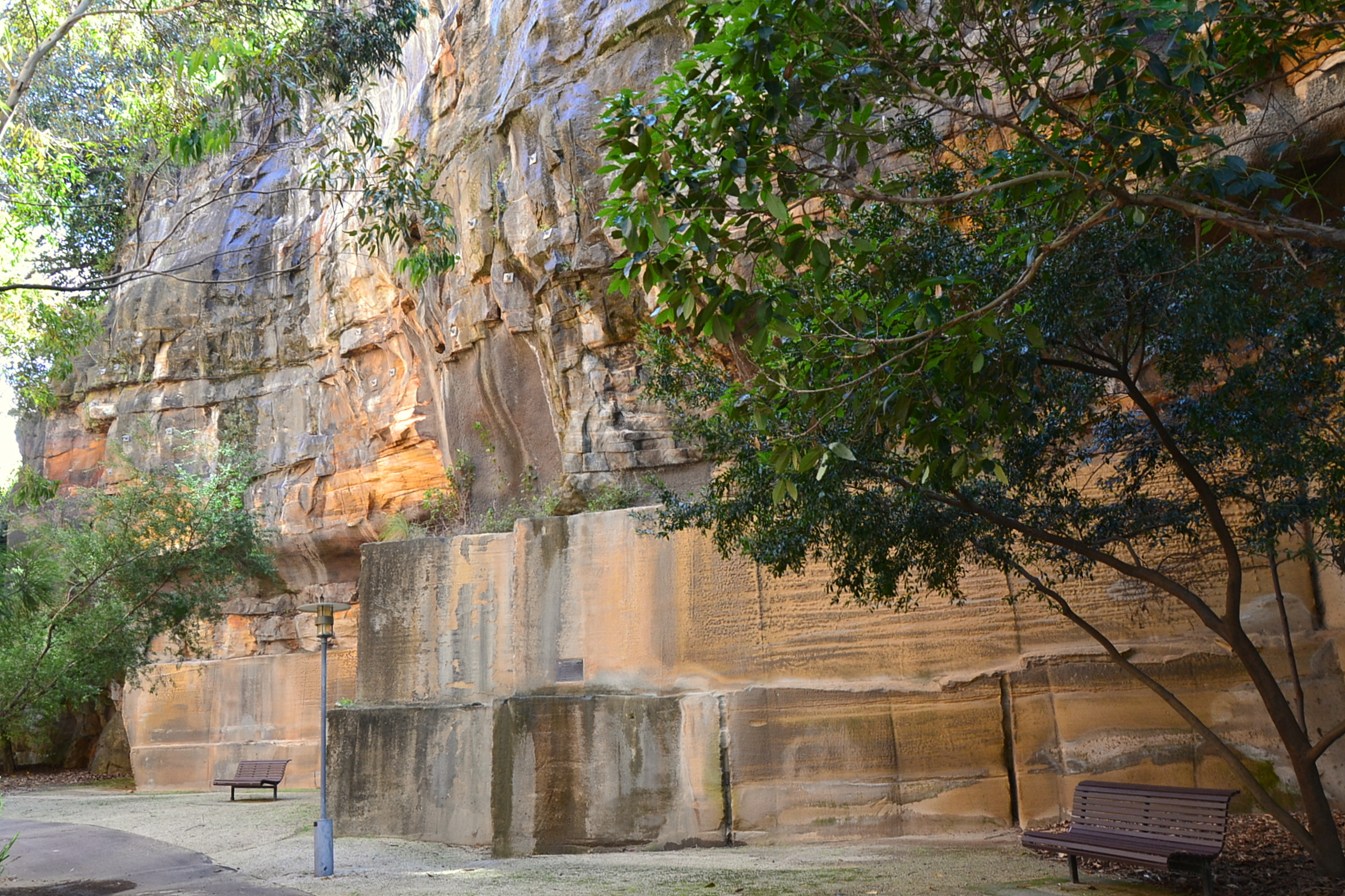 Saunders quarry, Pyrmont, Sydney